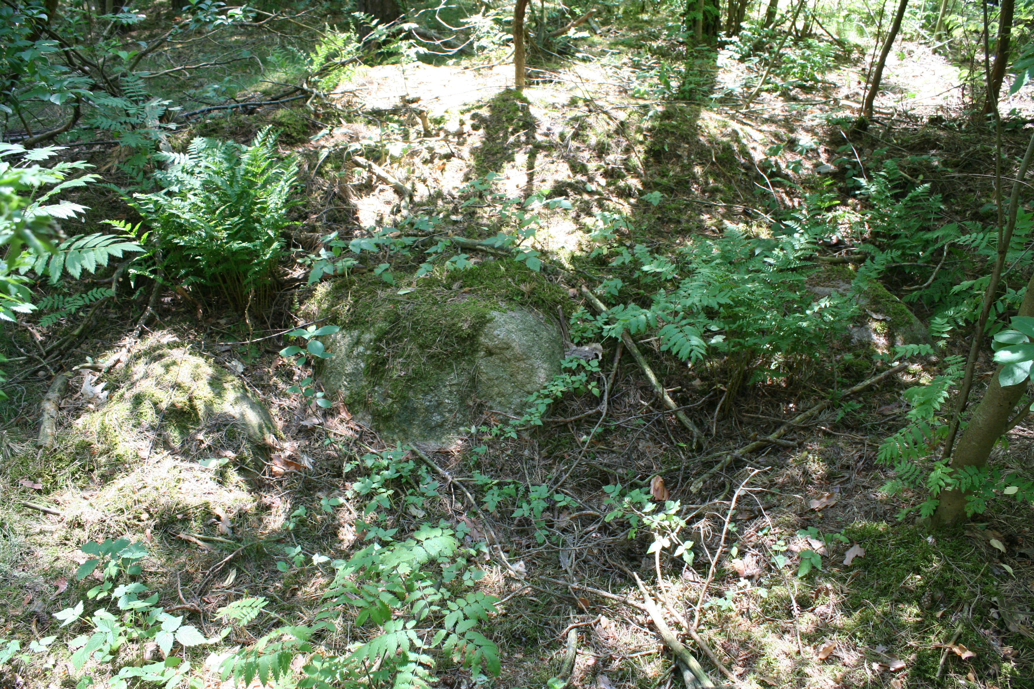 Megalithic tomb Haldensleben II 17